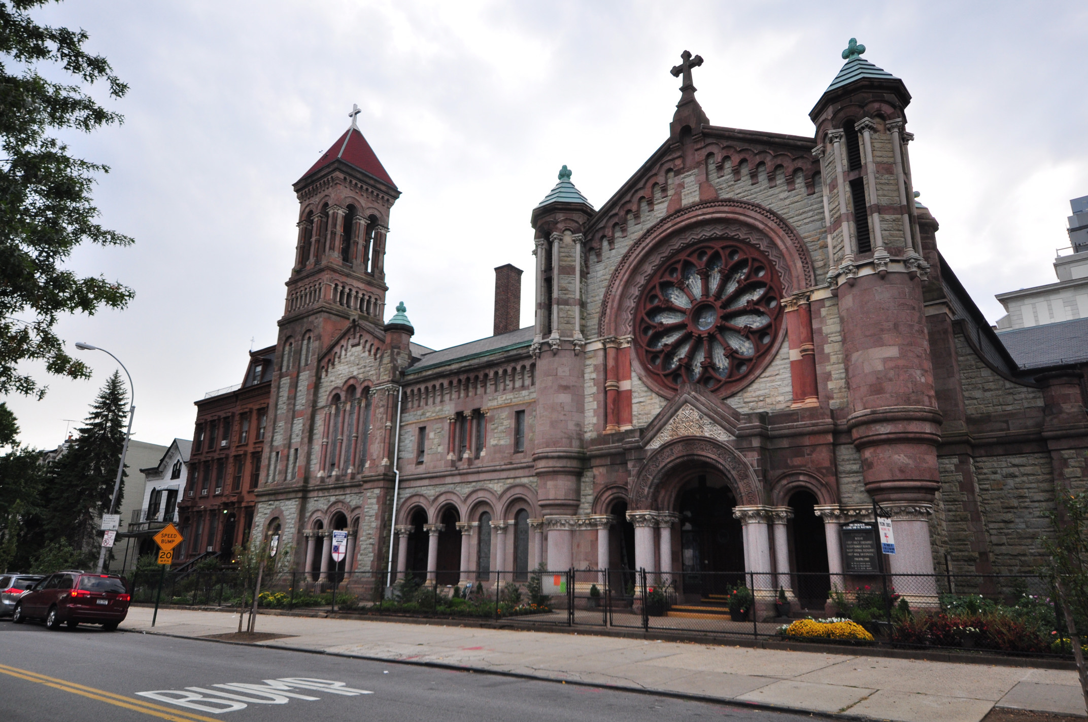 St. Luke's Protestant Episcopal Church